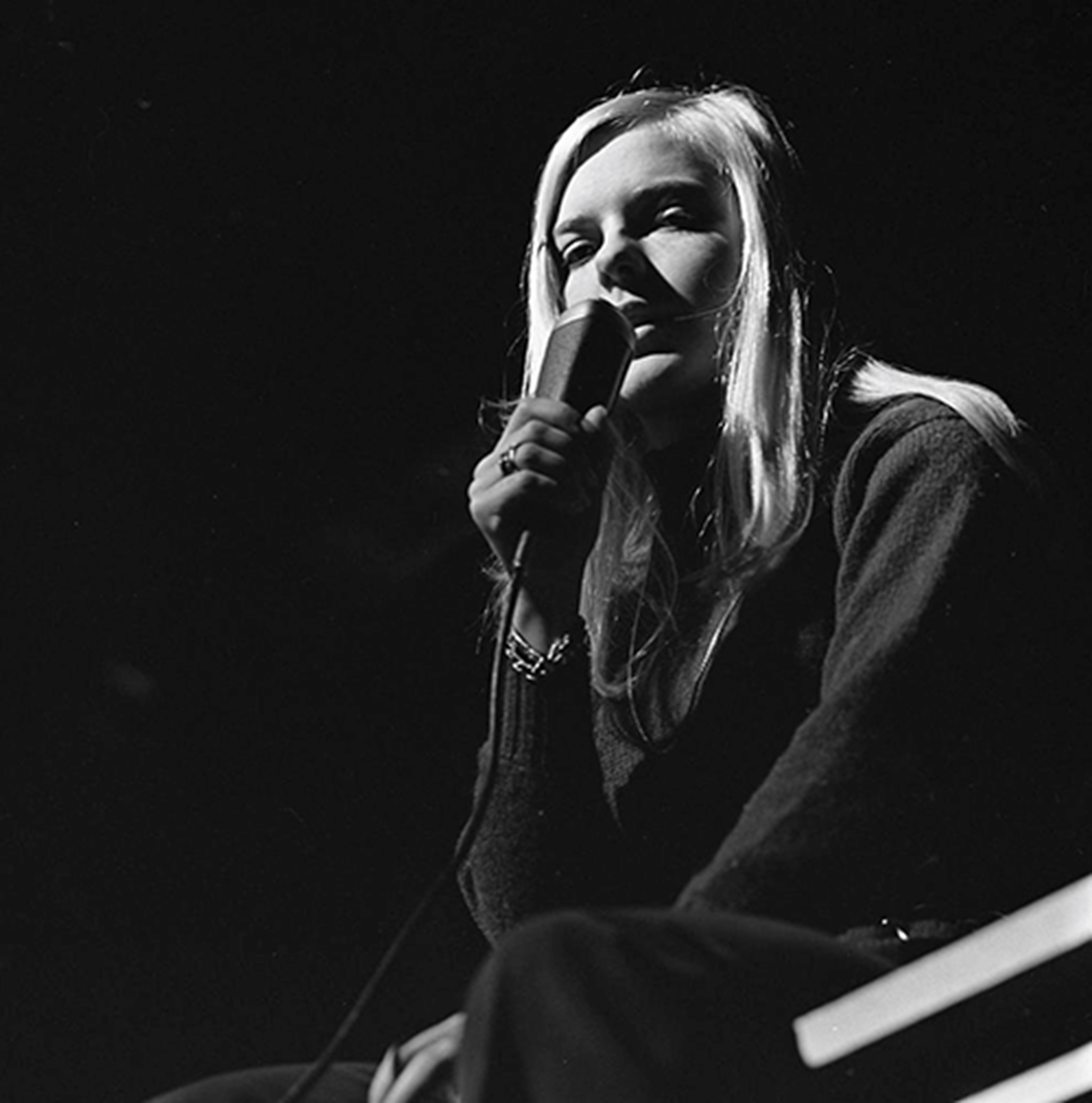 France Gall. Dutch TV programme Fenklup, 9 February 1968